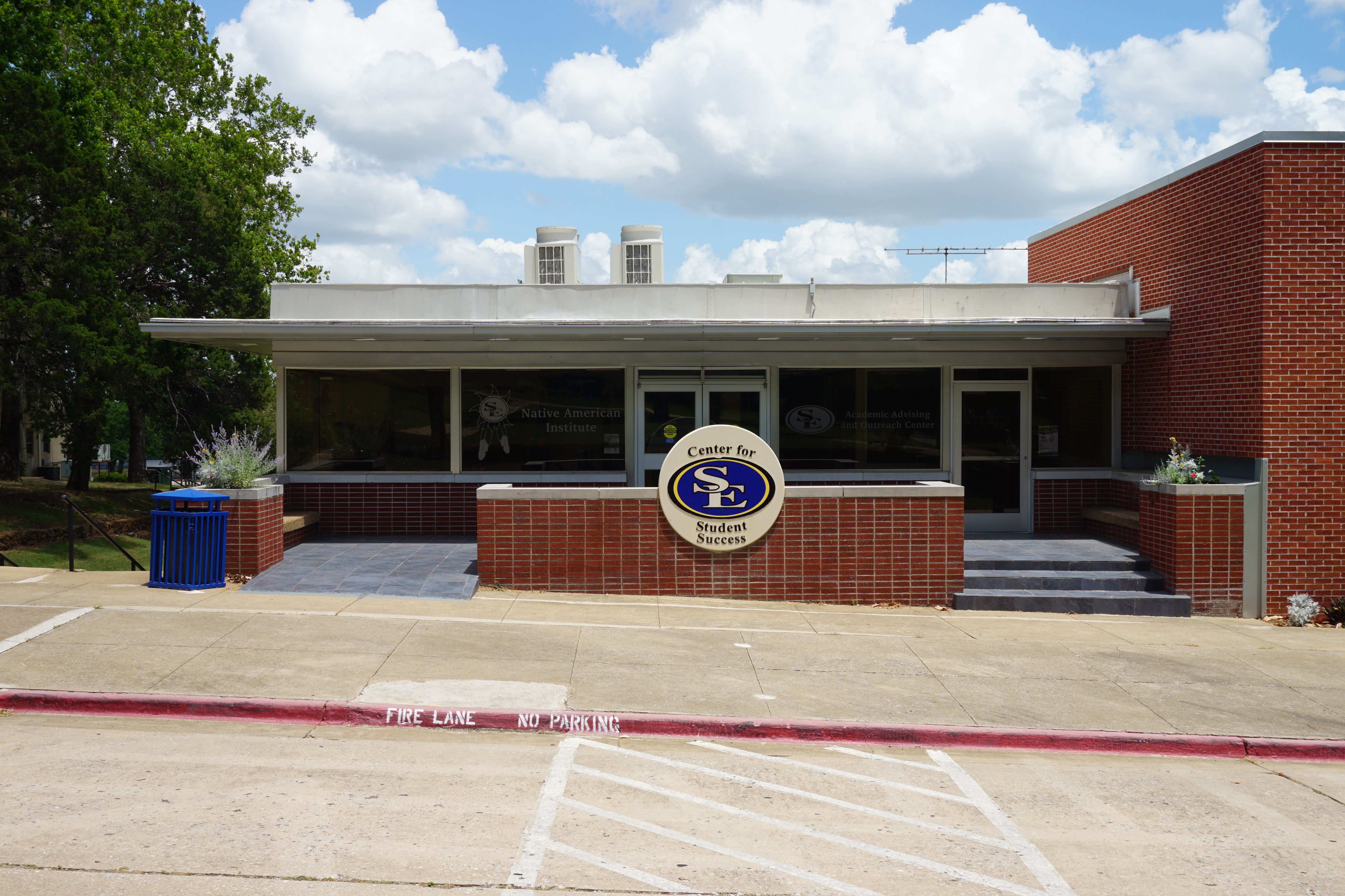 The Center for Student Success in the Hallie McKinney building on the campus of Southeastern Oklahoma State University in Durant, Oklahoma (United States).